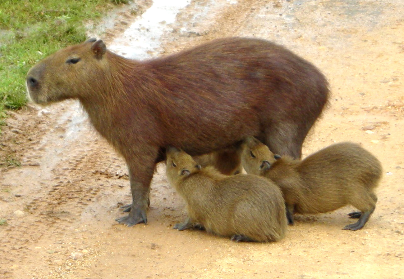 Capybara (cropped version with brightness adjustment of Image:Capibara 2.jpg)